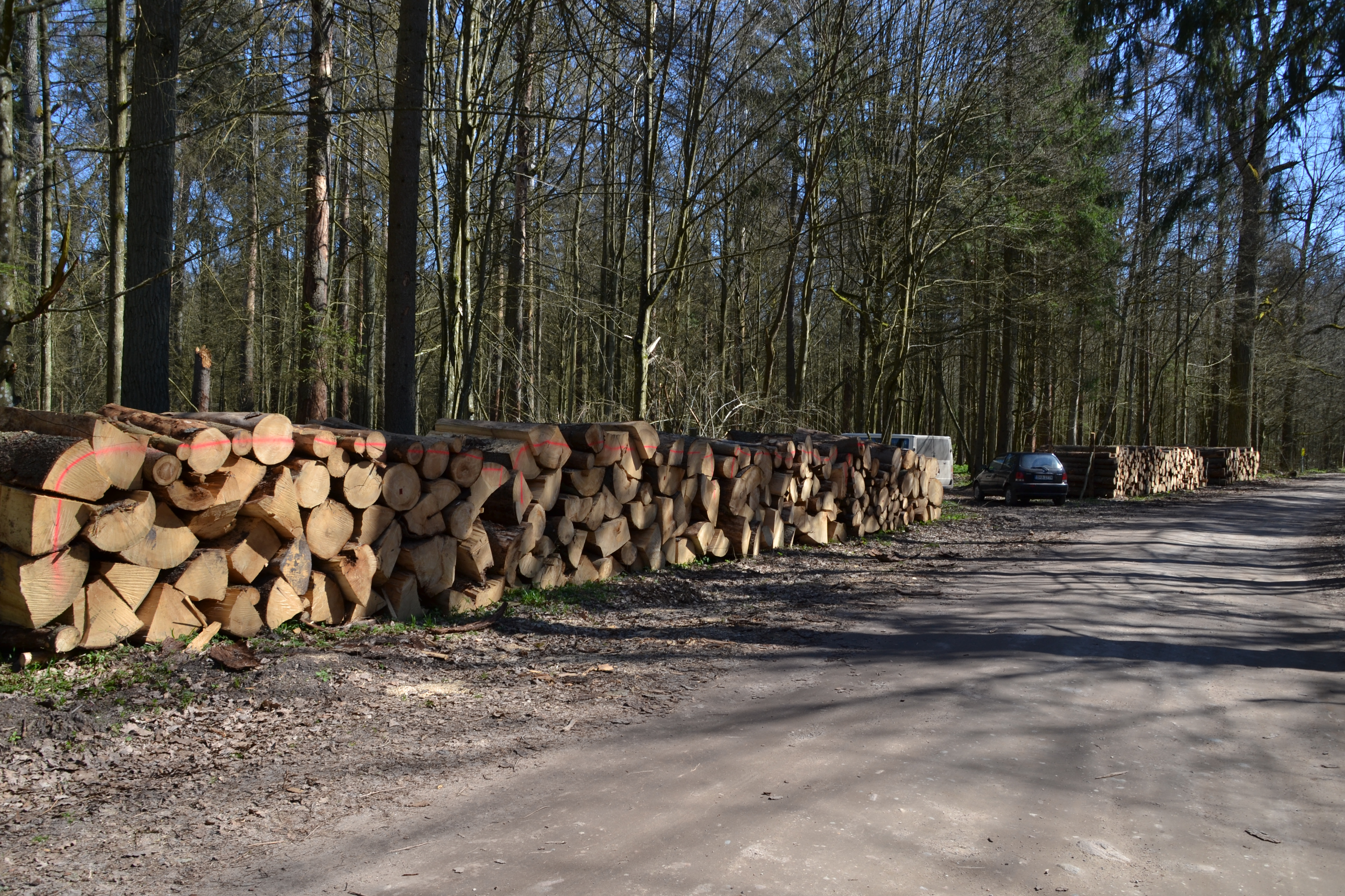 Logging on an industrial scale at world heritage site "Bialowieza Primeval Forest". Here along Droga Narewkowska on the 4th of April, 2017.